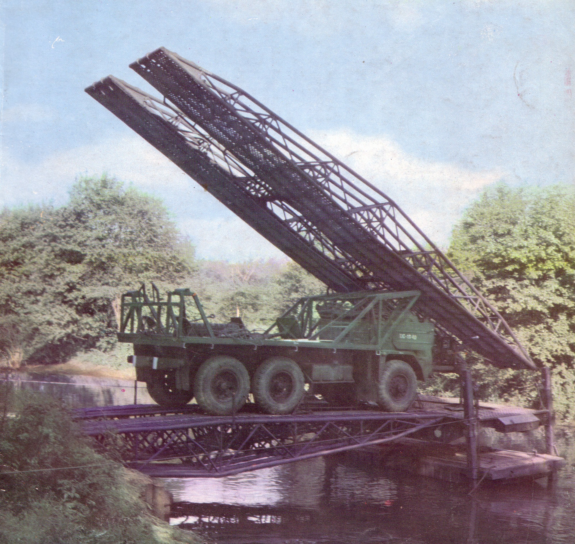 Bridgelayer SMT-1